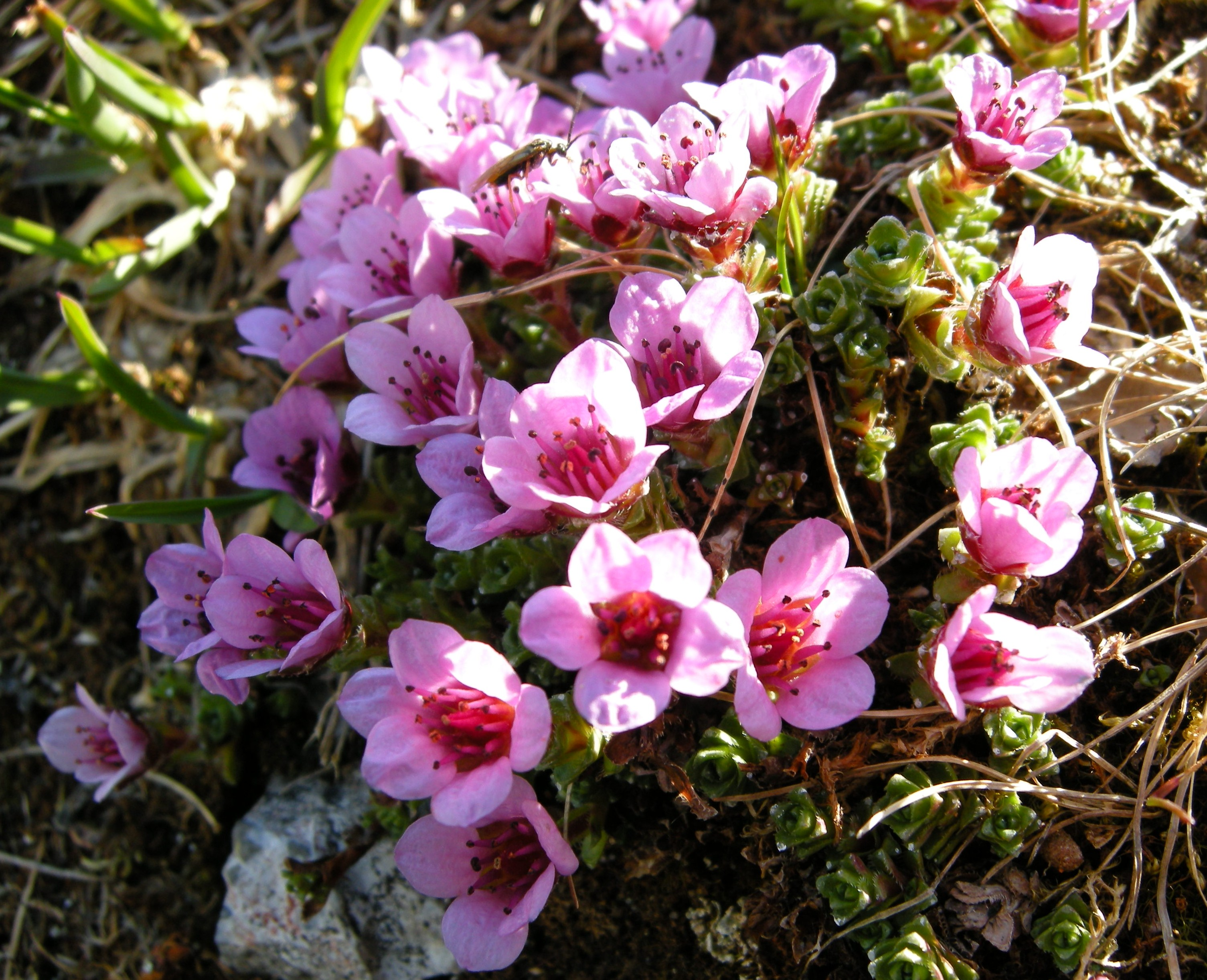 Purple saxifrage - Saxifraga oppositifolia